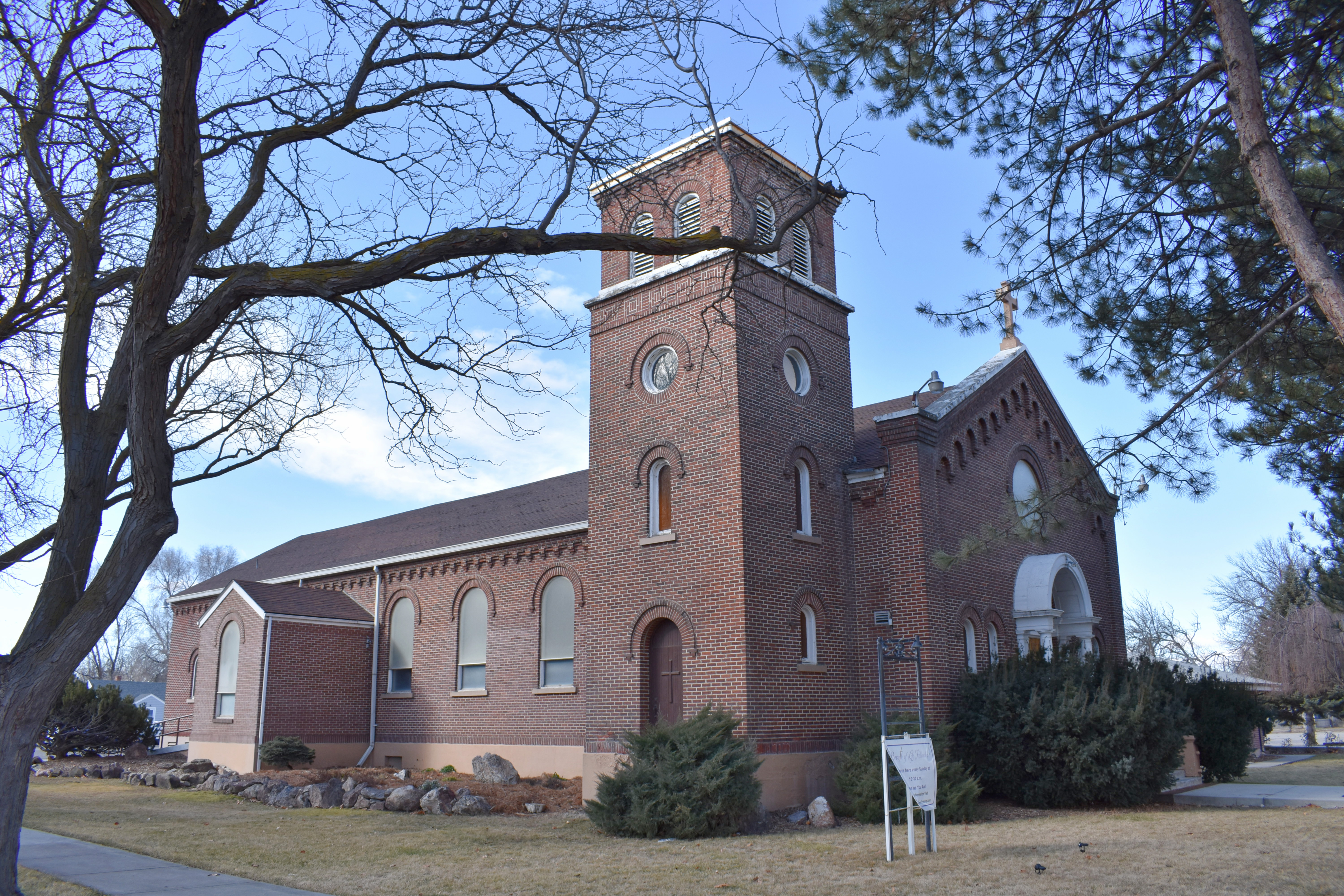 St. Mary's Catholic Church (1937) in Caldwell, Idaho, is listed on the National Register of Historic Places.